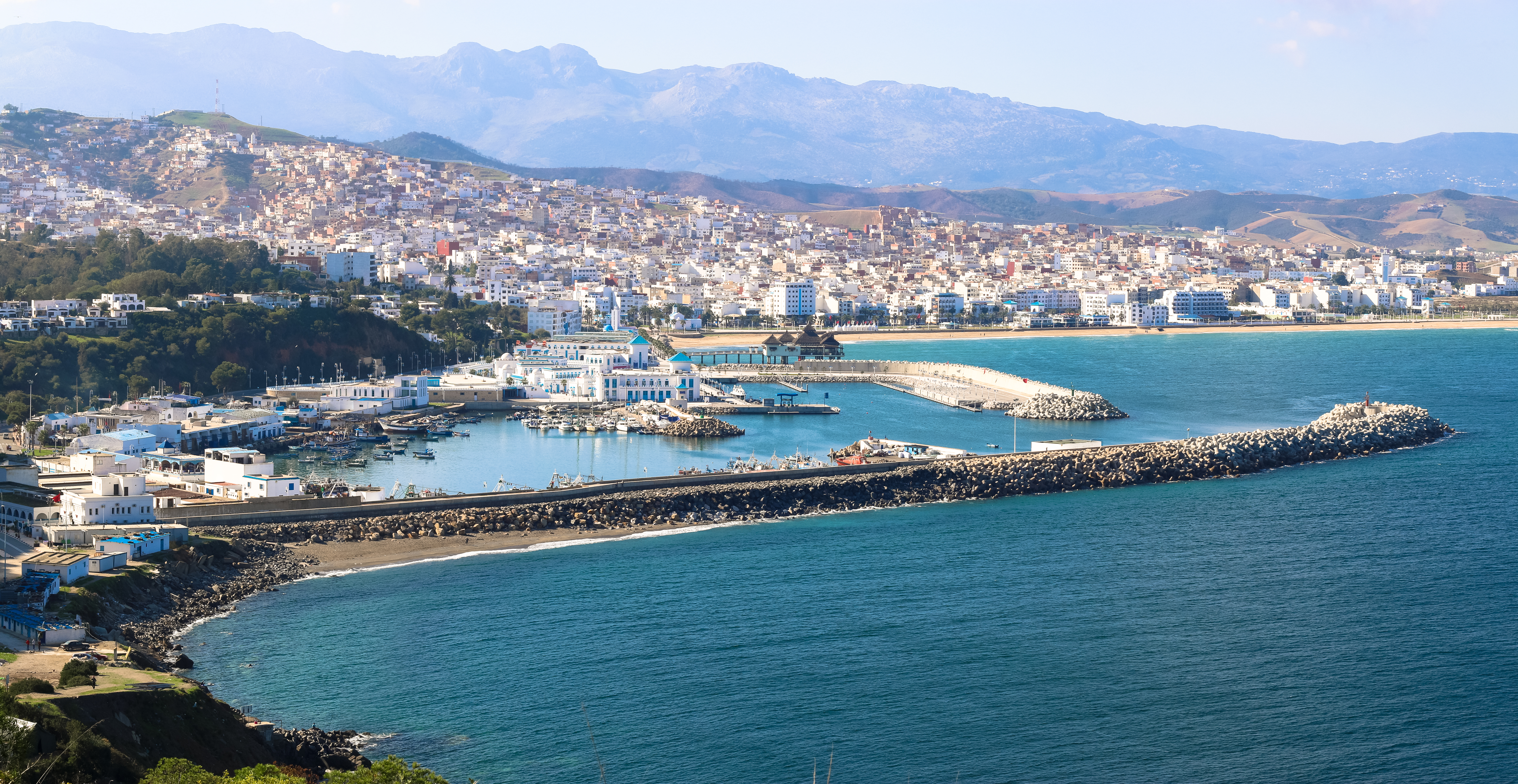 M'diq, Morocco